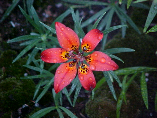 Lilium philadelphicum This work is free and may be used by anyone for any purpose. If you wish to use this content, you do not need to request permission as long as you follow any licensing requirements mentioned on this page.